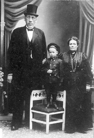 Gustaf Edman (1882-1912) 242 cm tall, with wife Anna and son Gustaf. The tallest man ever in Sweden.